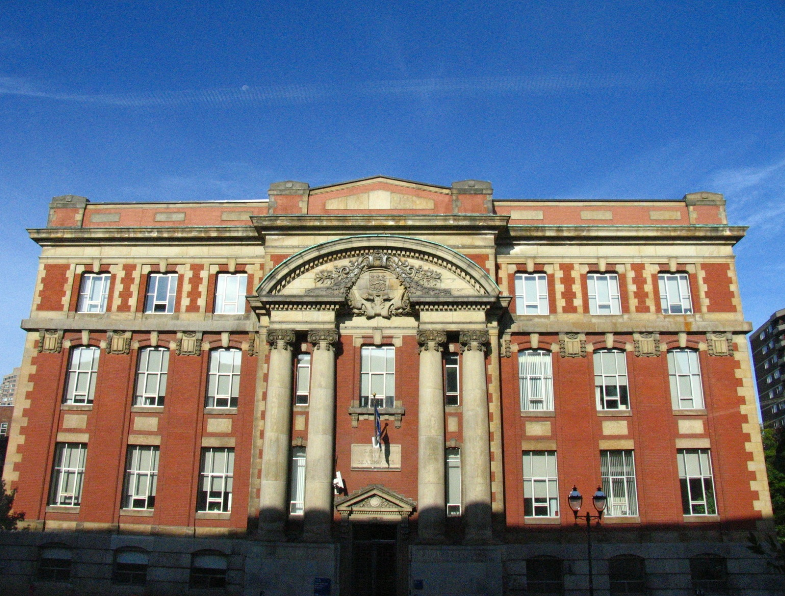 The Office québécois de la langue française building. Taken on October 1st, 2007.